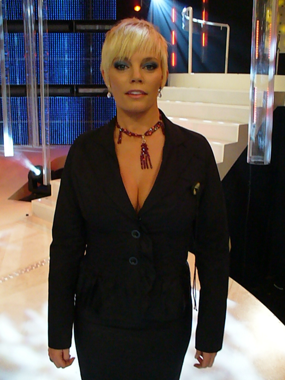 Gry Forssell hosting Rampfeber in TV4. Photo: Yvwv